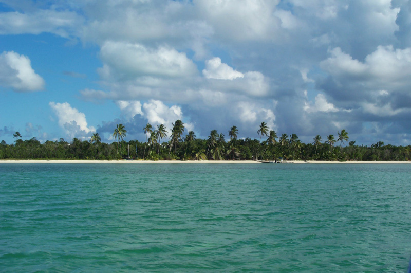 Photo taken by myself, Tiamo Resort area, south Andros Island, 2002, Robert Stein III.